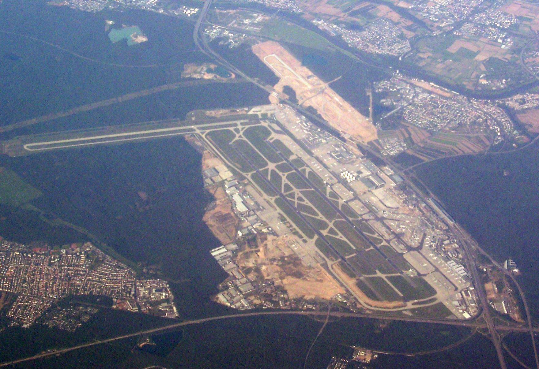 Aerial photo looking from the east showing Frankfurt airport as a light island in the dark forest. Service areas, passenger and cargo terminals to the right, to the left building site of "Cargo City South". In the upper right the construction site of the new runway and from left to right the "Startbahn-West".